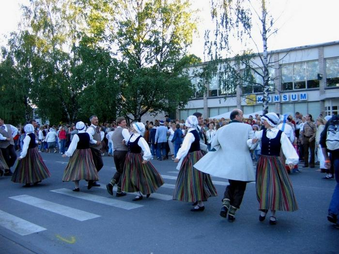 Võrufolk 2006, Estonia